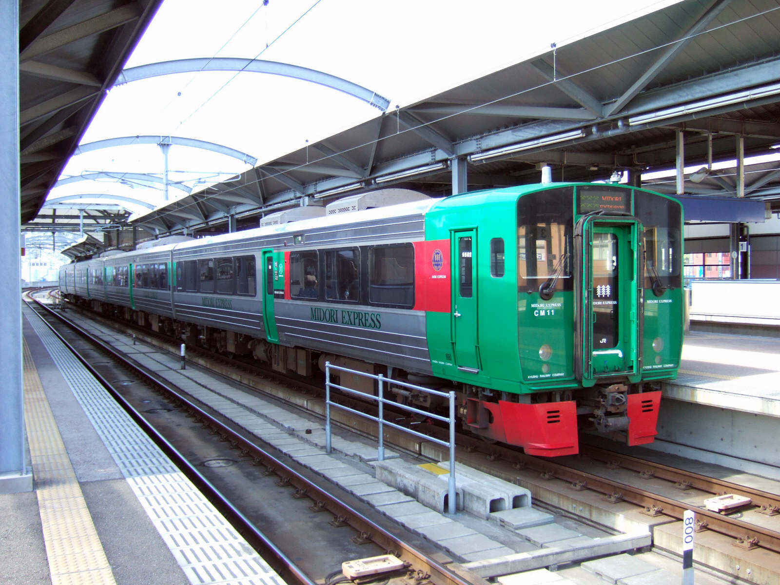 特急「みどり」用クロハ782形100番台車（佐世保駅にて）Thsc782-500 for Limited Exp.Midori at Sasebo Station